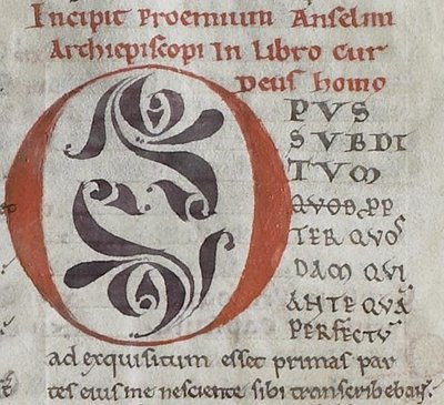 The beginning of the preface of Anselm of Canterbury's Cur Deus Homo; the 12th century manuscript is preserved in Lambeth Palace Library, London.